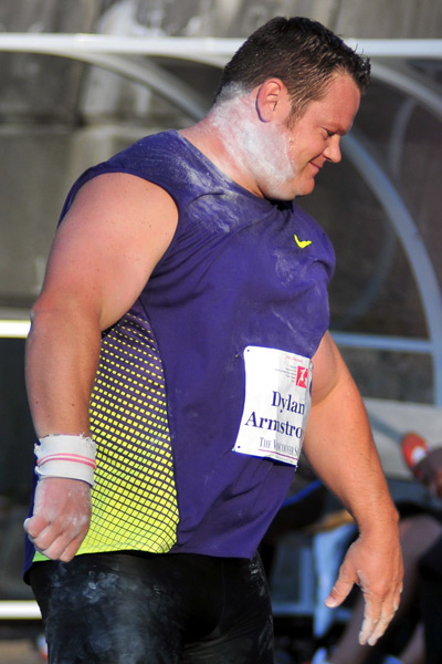 Photo of athlete Dylan Armstrong. Wilson Wong photo.